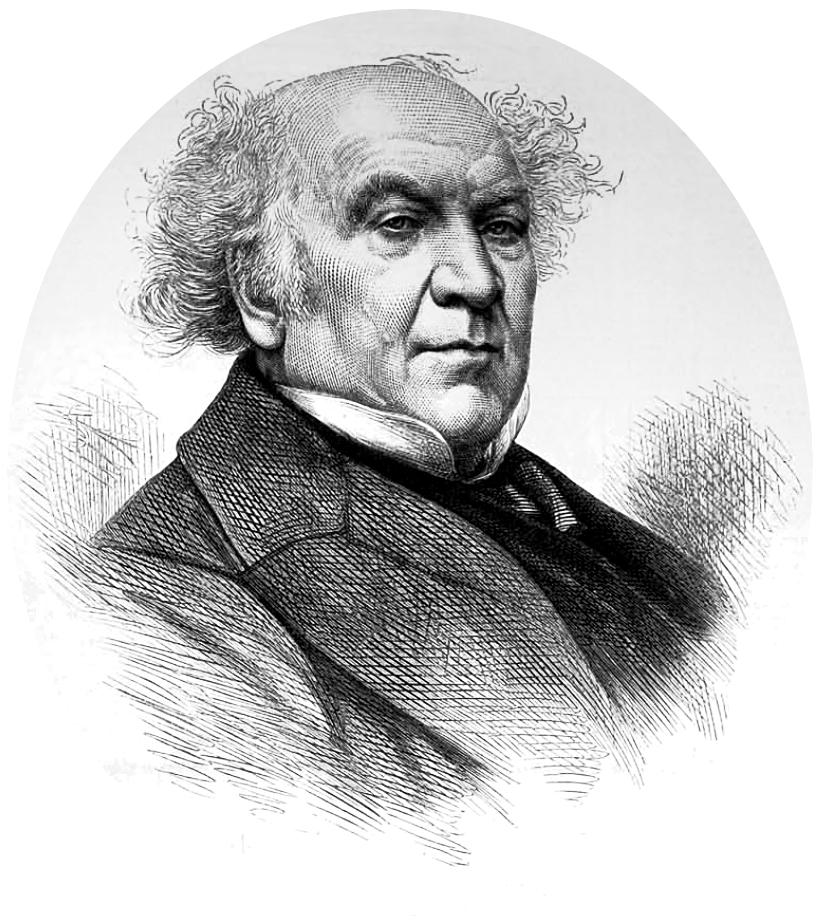 The Irish physician Sir James Murray in the London Illustrated News in 1872